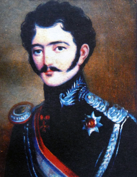 Prince Constantine Bagrationi, the 3rd son of Prince David of Georgia (1789-1844)